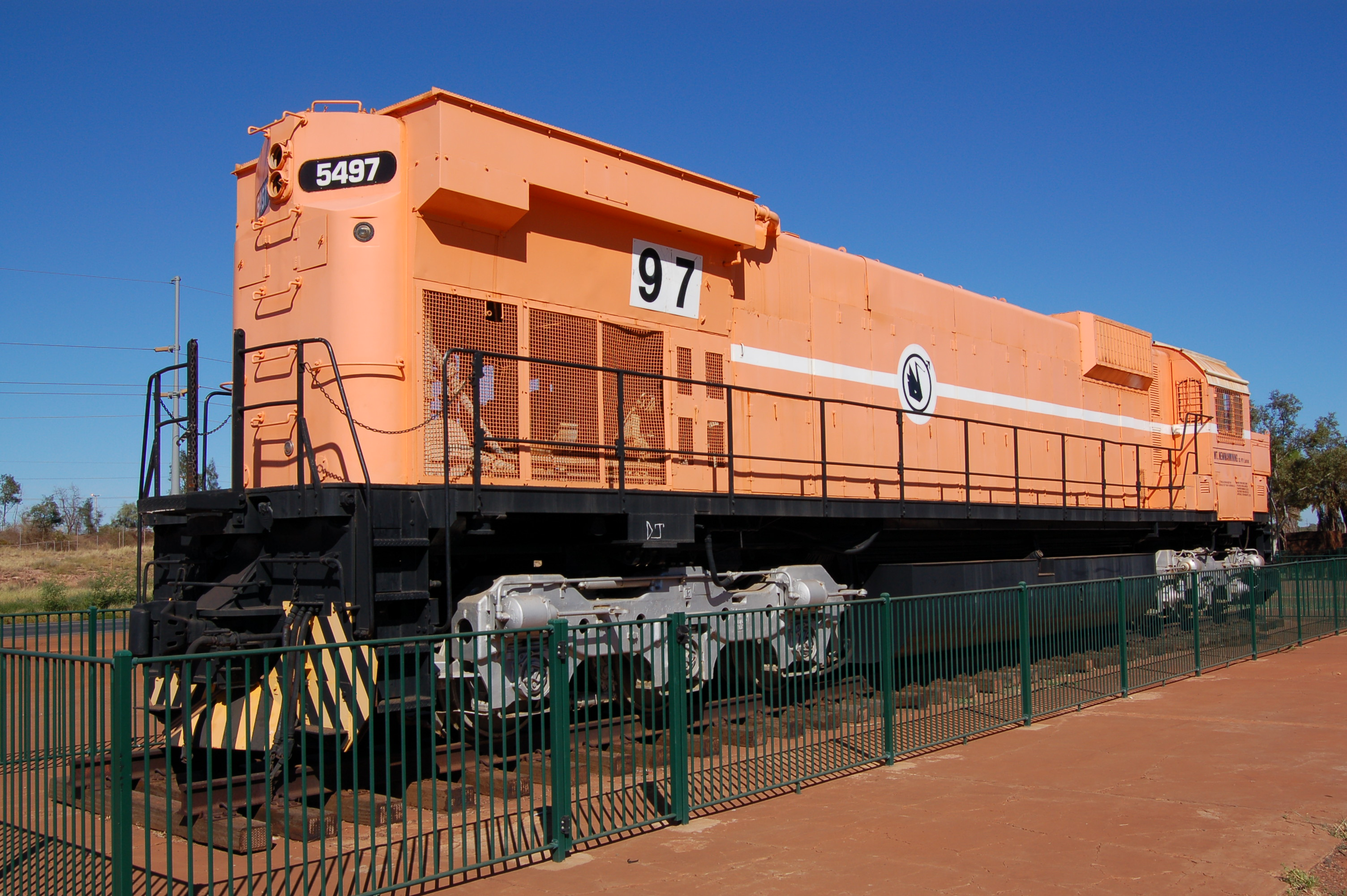 A hood end view of ex-Mt Newman Mining ALCO M636 2,684 kW Co-Co diesel-electric loco no. 5497, at the Don Rhodes Mining and Transport Museum, Wilson Street, Port Hedland, Western Australia. This locomotive was manufactured in 1975 by Commonwealth Engineering in New South Wales. Together with pairs of sister locomotives, it was used in the 1970s to haul trains of 144 ore cars carrying 17,000 tonnes of iron ore along the Mount Newman railway from Mt Whaleback to Port Hedland. Over time, regular train lengths and weights on this line were increased, with four or five M636 locomotives being used to haul them. (Source: the plaque adjacent to the exhibit.)